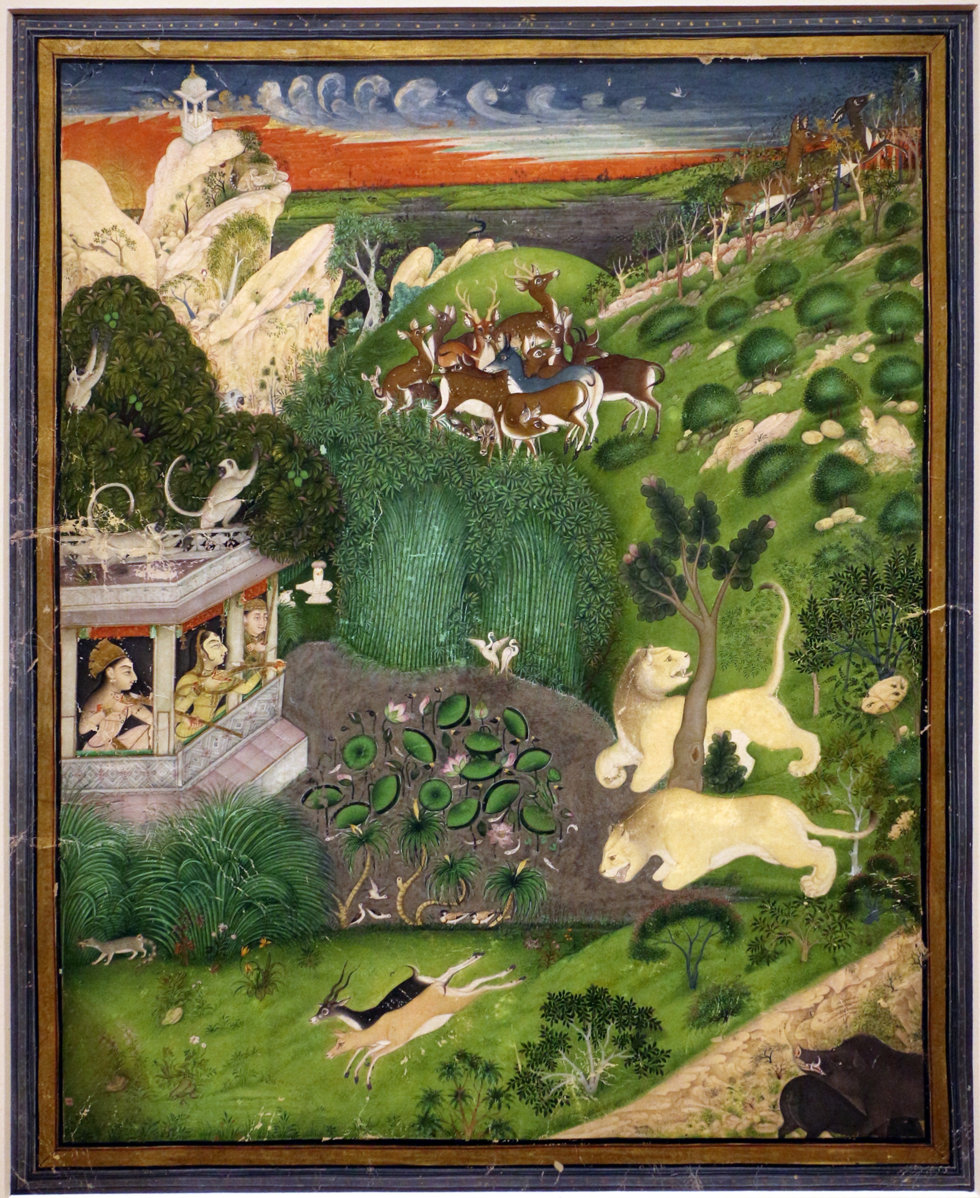 Paintings from India in the Cleveland Museum of Art